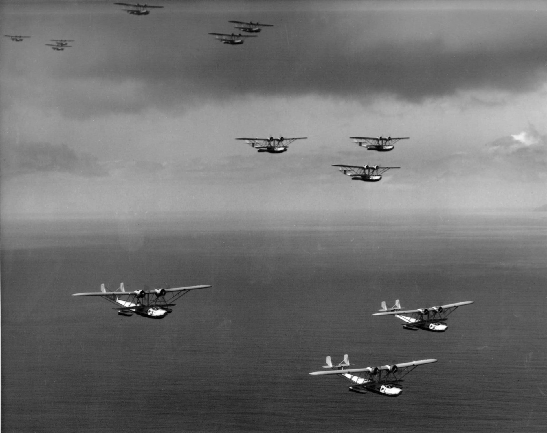 U.S. Navy Consolidated P2Y flying boats assigned to Patrol Squadron VP-4 pictured over the waters of the Pacific Ocean during a long distance formation flight.